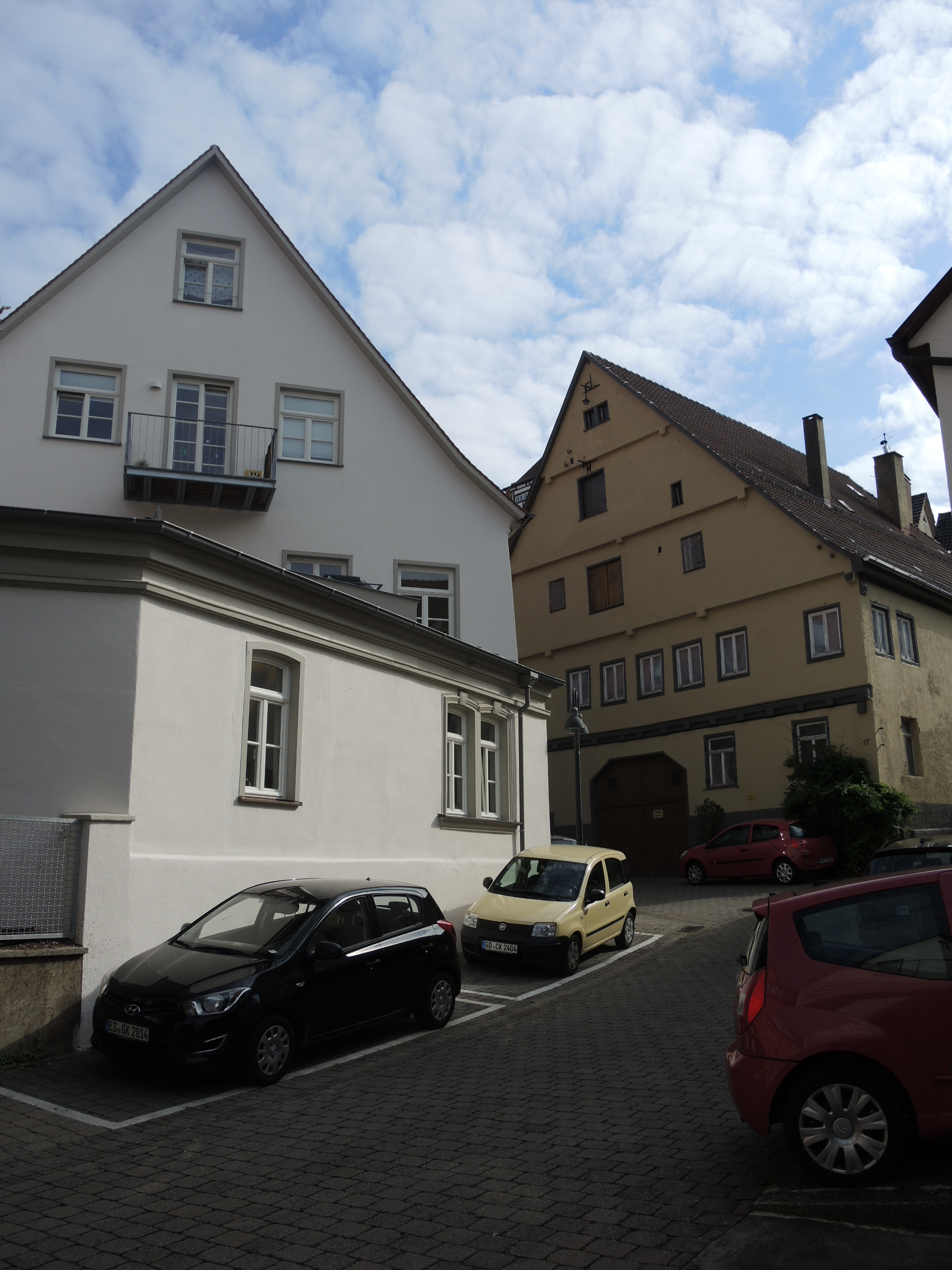 View to Judenbad in Imhofstraße in Schwäbisch Gmünd